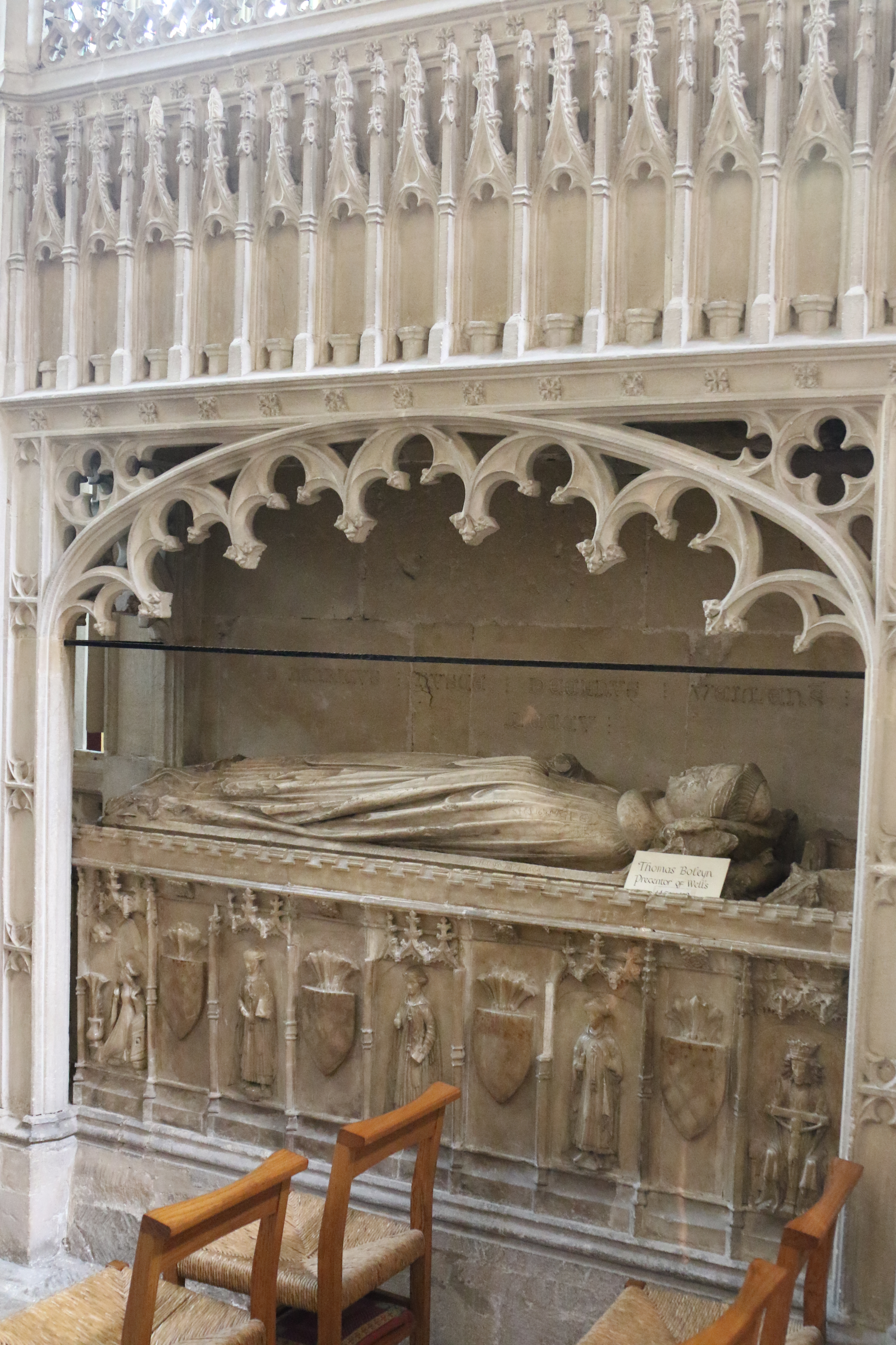 Precentor of Wells 1451-1472